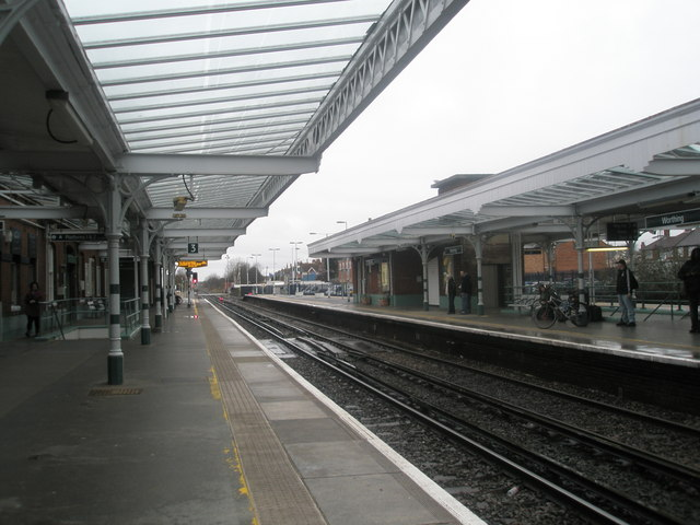 Looking westwards from Worthing Station